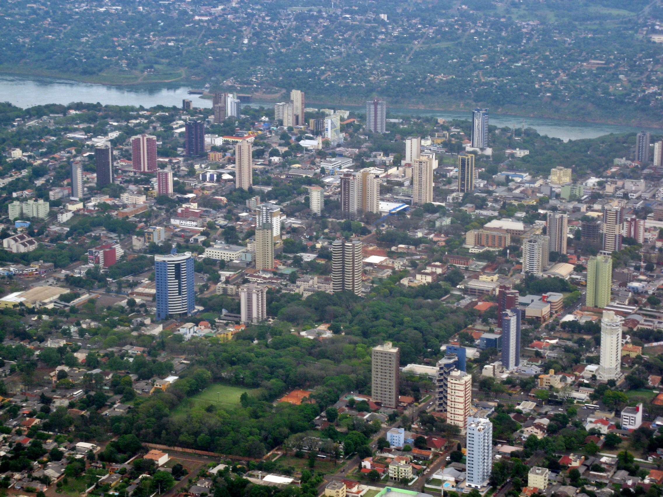 Aerial photo of Foz do Iguaçu, Brazil